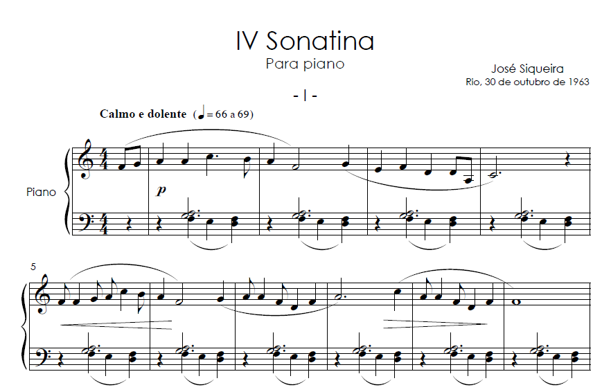 Score